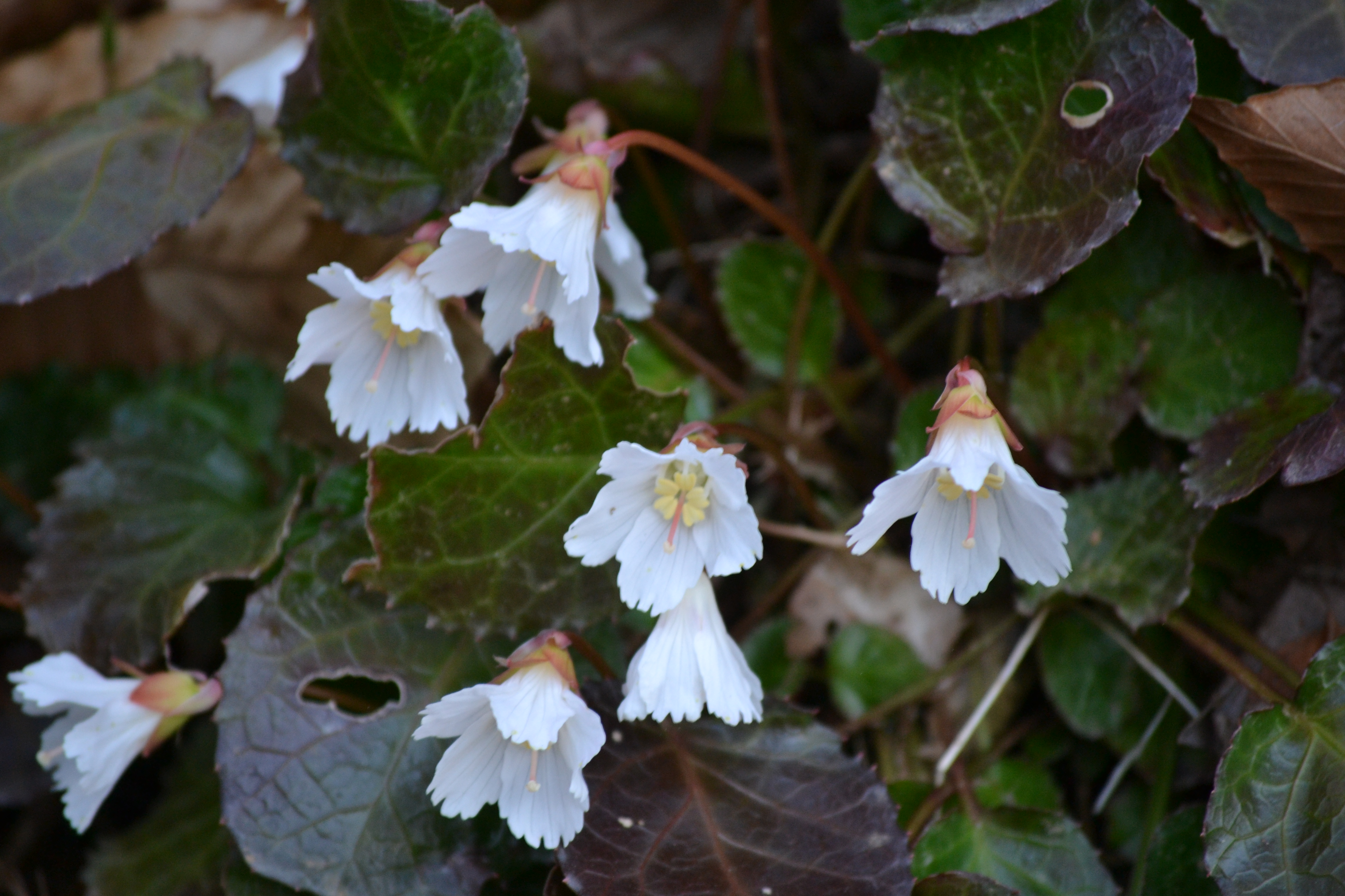 Shortia galacifolia - 2013. Photographed in Oconee County, South Carolina.